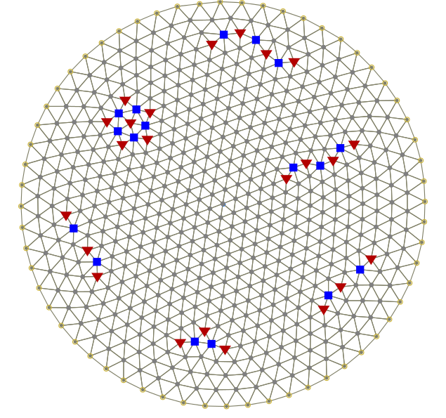 Triangulated structure of a 600-particle Wigner cluster in a parabolic potential trap. Triangles and squares mark the positions of topological defects.